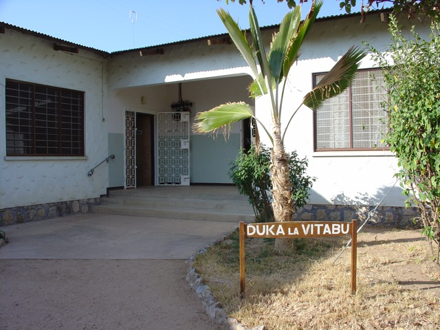 KLB bookshop in Dodoma.